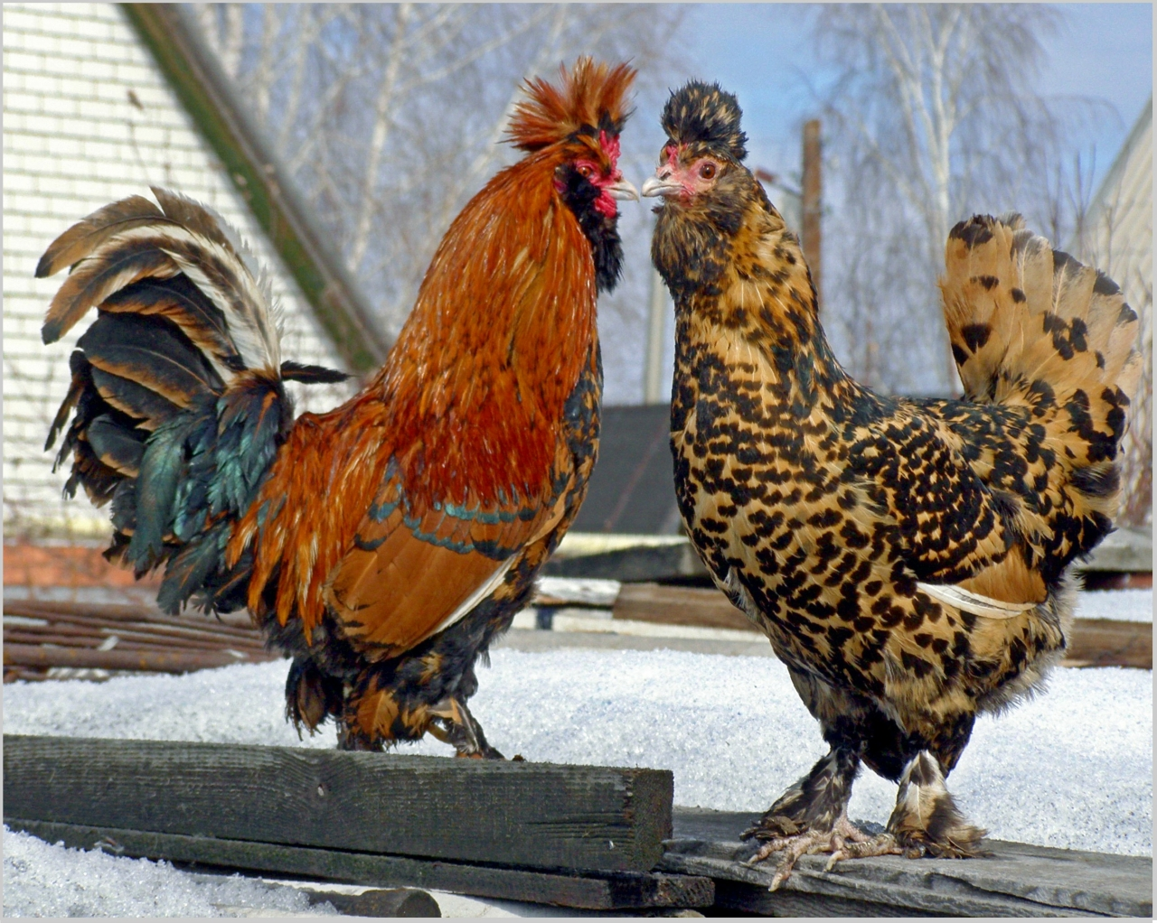 Павловская порода кур Pavlovian cock